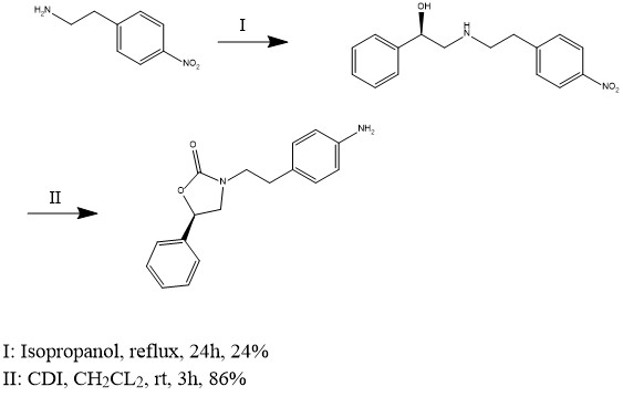 Alternitive synthesis for Mirabegron